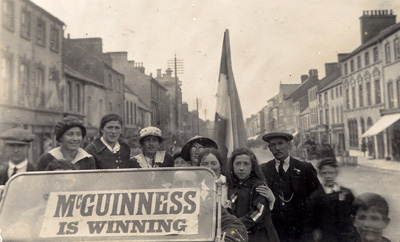 McGuinness campaign car, 1917 South Longford by-election. Joseph McGuinness was in prison at this time in Lewes, Sussex, England, for his part in the 1916 Rising. Centre of the picture (with white trim around her hat) is his wife (née Katherine Farrell) and three nieces, (Brigid and Maureen McGuinness and Brigid Lyons). Commentators have remarked on the importance of the motor car in this campaign. The result saw McGuinness elected to Westminster, the second member of Sinn Féin to be elected that year. In keeping with his party's policy he never took his seat in London.